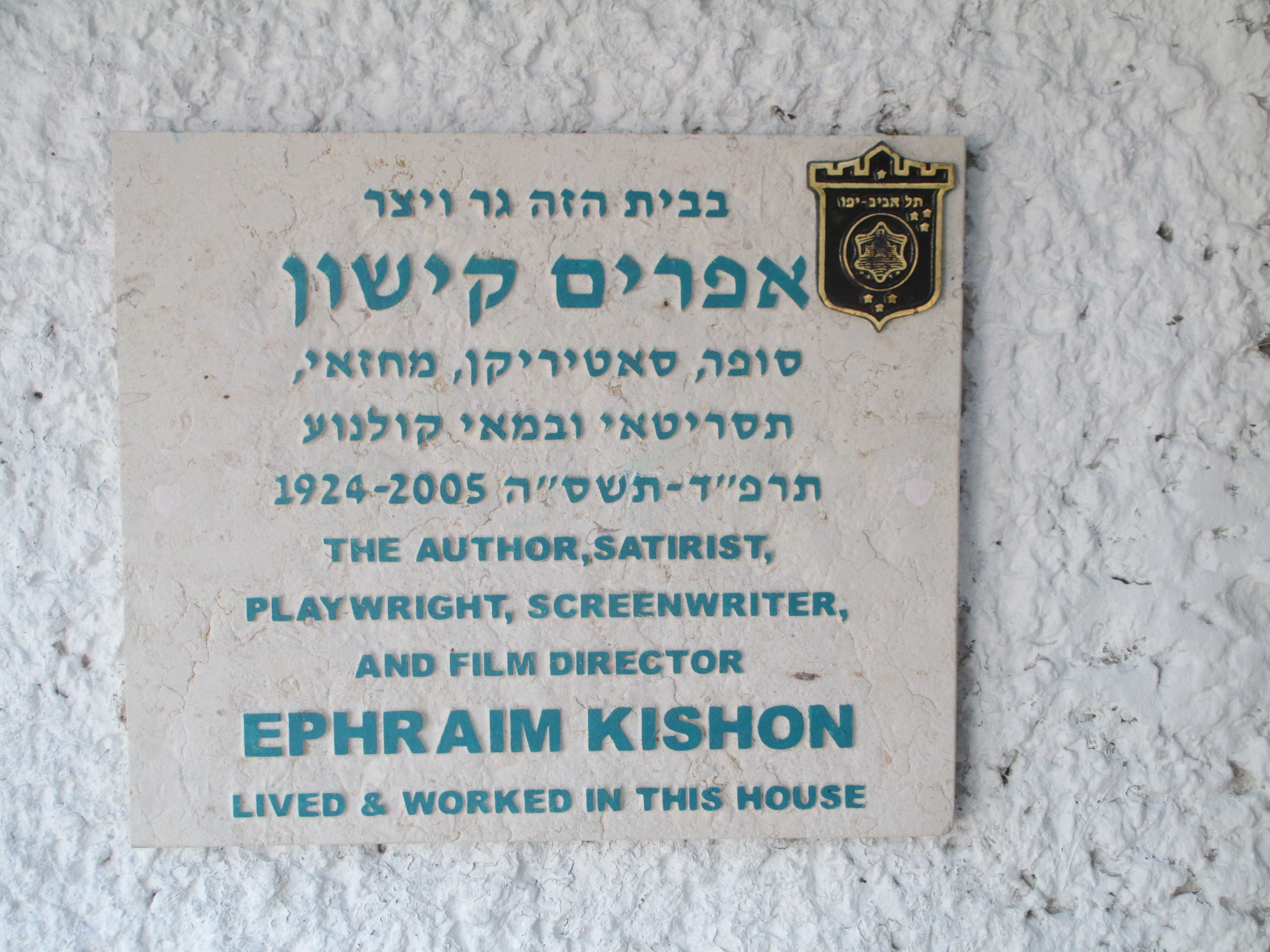 Memorial plaque to Ephraim Kishon on his house in Tel Aviv